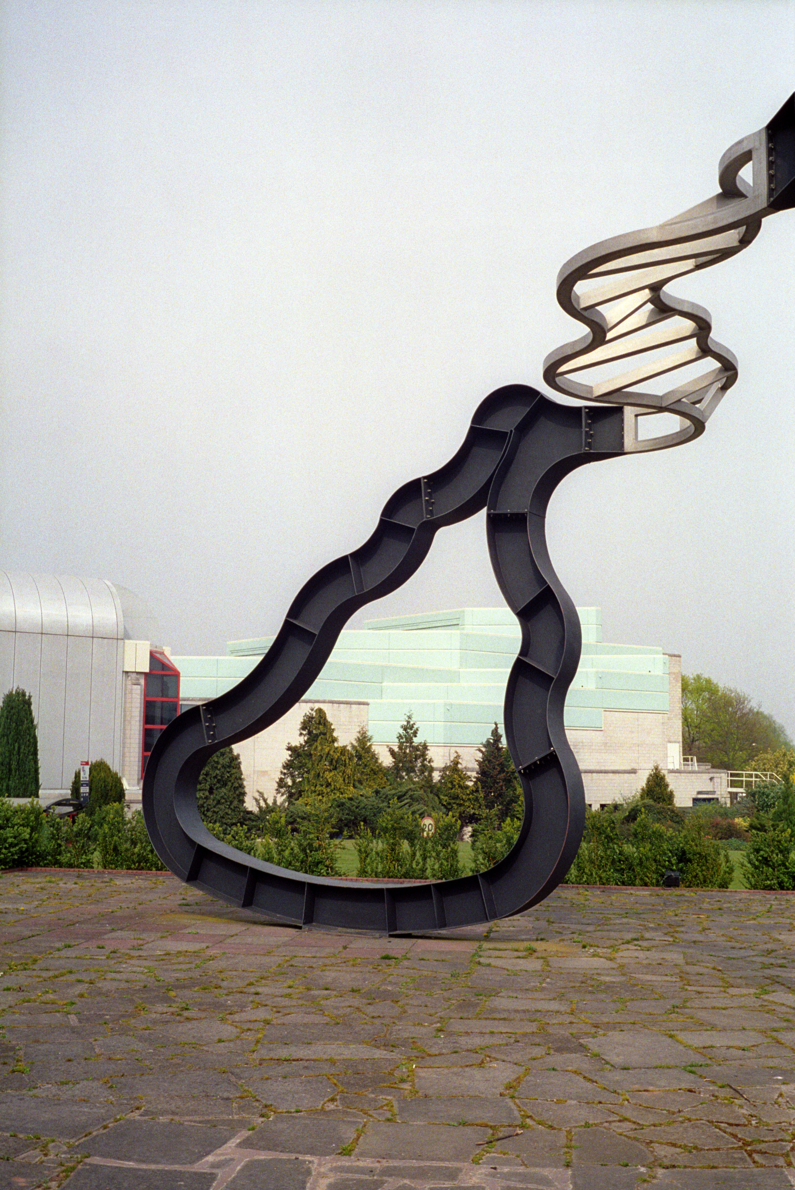 Part of Let's Not Be Stupid by Richard Deacon, with Warwick Arts Centre in the background.